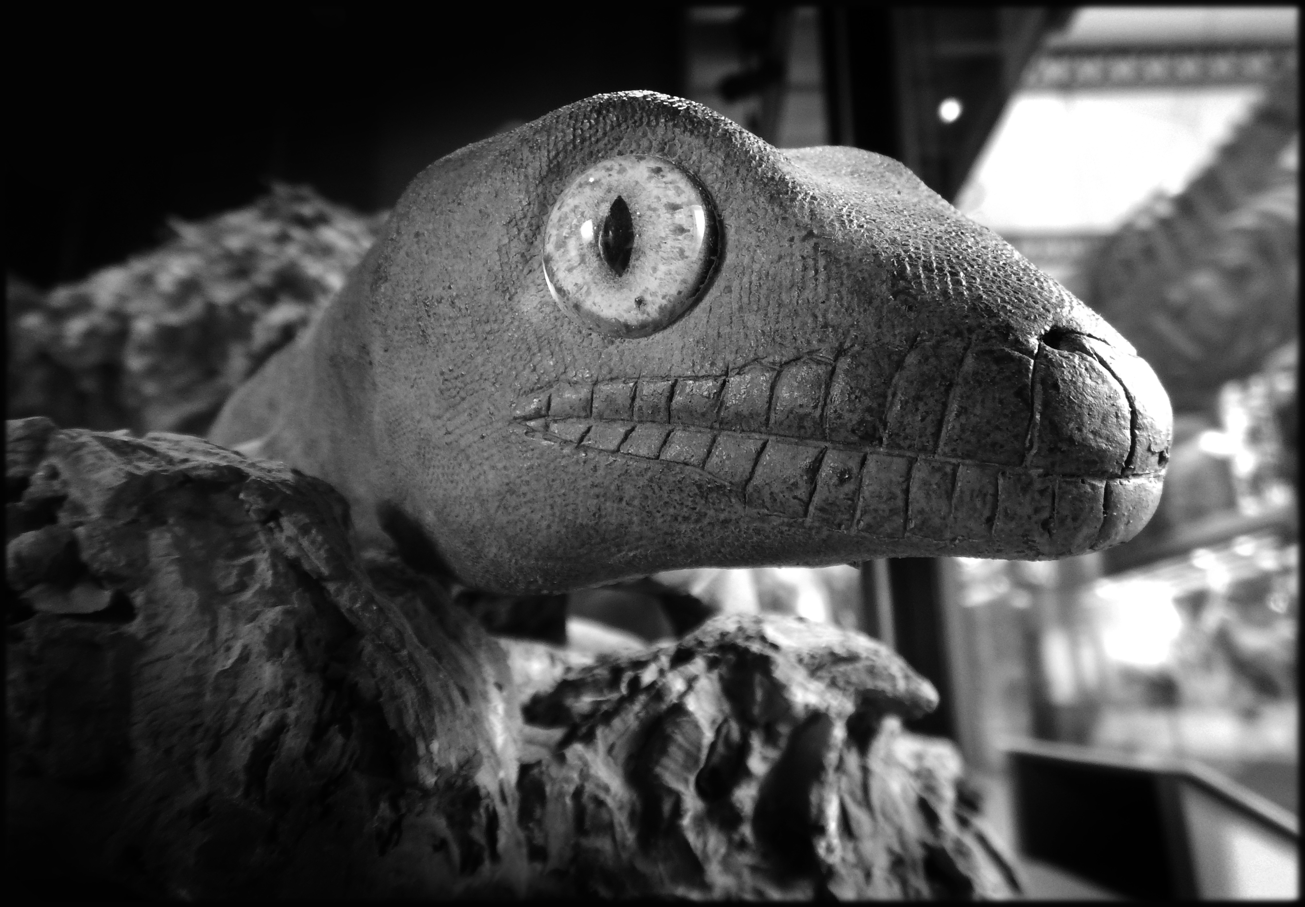 Delcourt's Gecko ( Hoplodactylus delcourti): a giant gecko species, endemic of New Zealand wich became extinct species in the second half of the nineteenth century ; considered extinct in 1870. It could reach 60 cm long, . Only a few reconstituted or naturalized specimens (like this one) are held by some natural history museum in the world. This object was part of the exhibition "The dear departed" presented to the public in 2000 by the Lille Natural History Museum (MHNL)